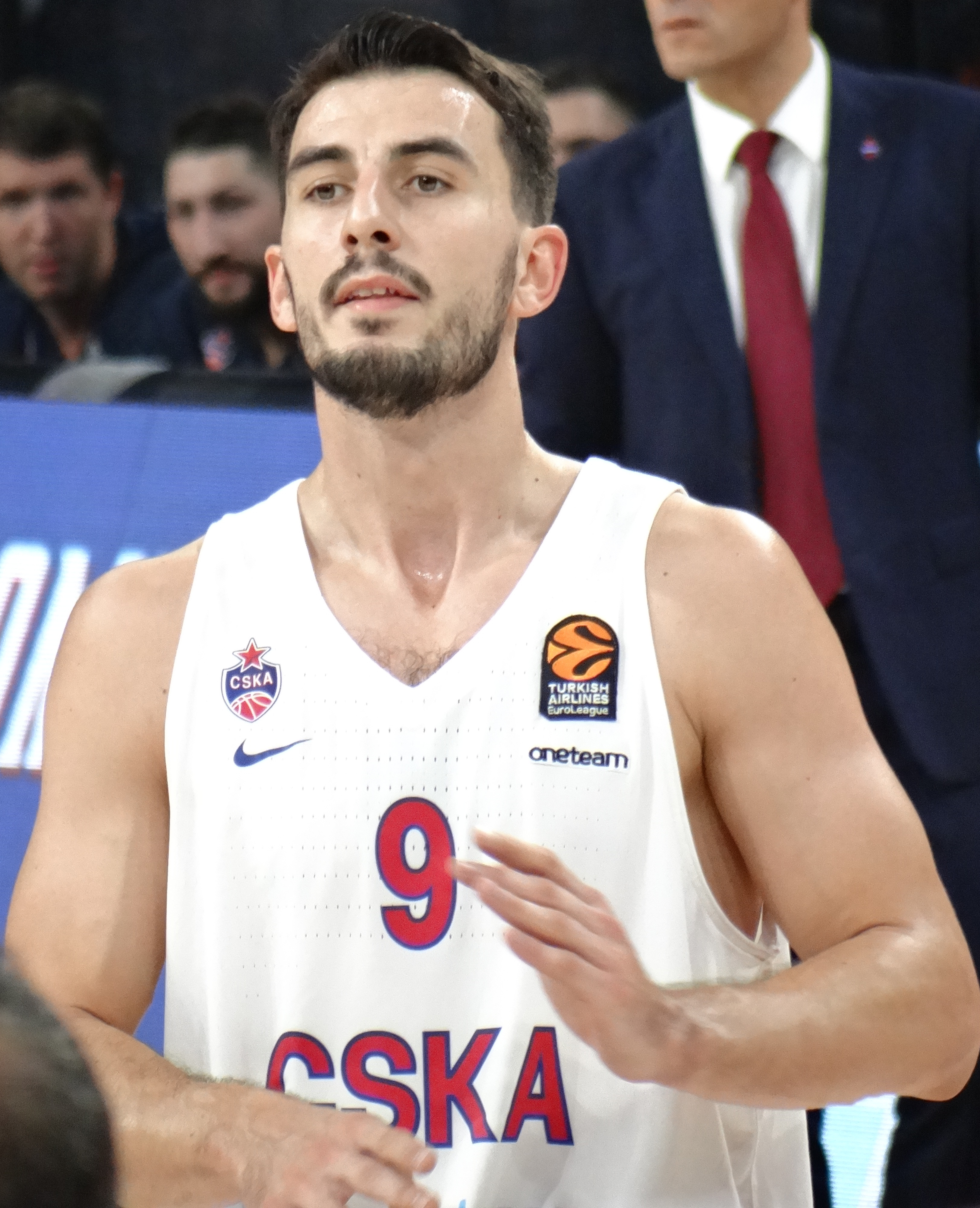 Léo Westermann 9 PBC CSKA Moscow 20171027